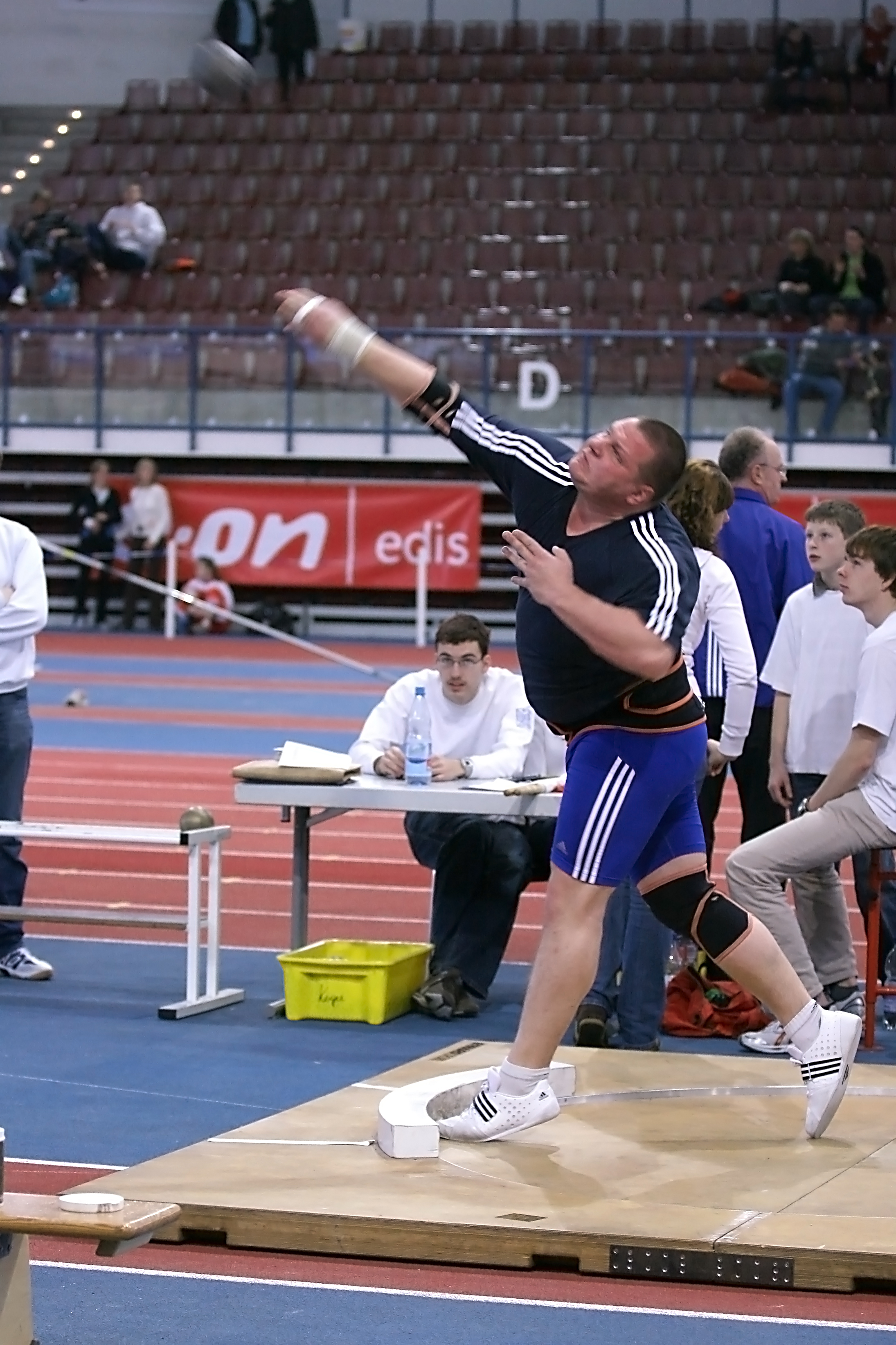 Ralf Bartels in Neubrandenburg